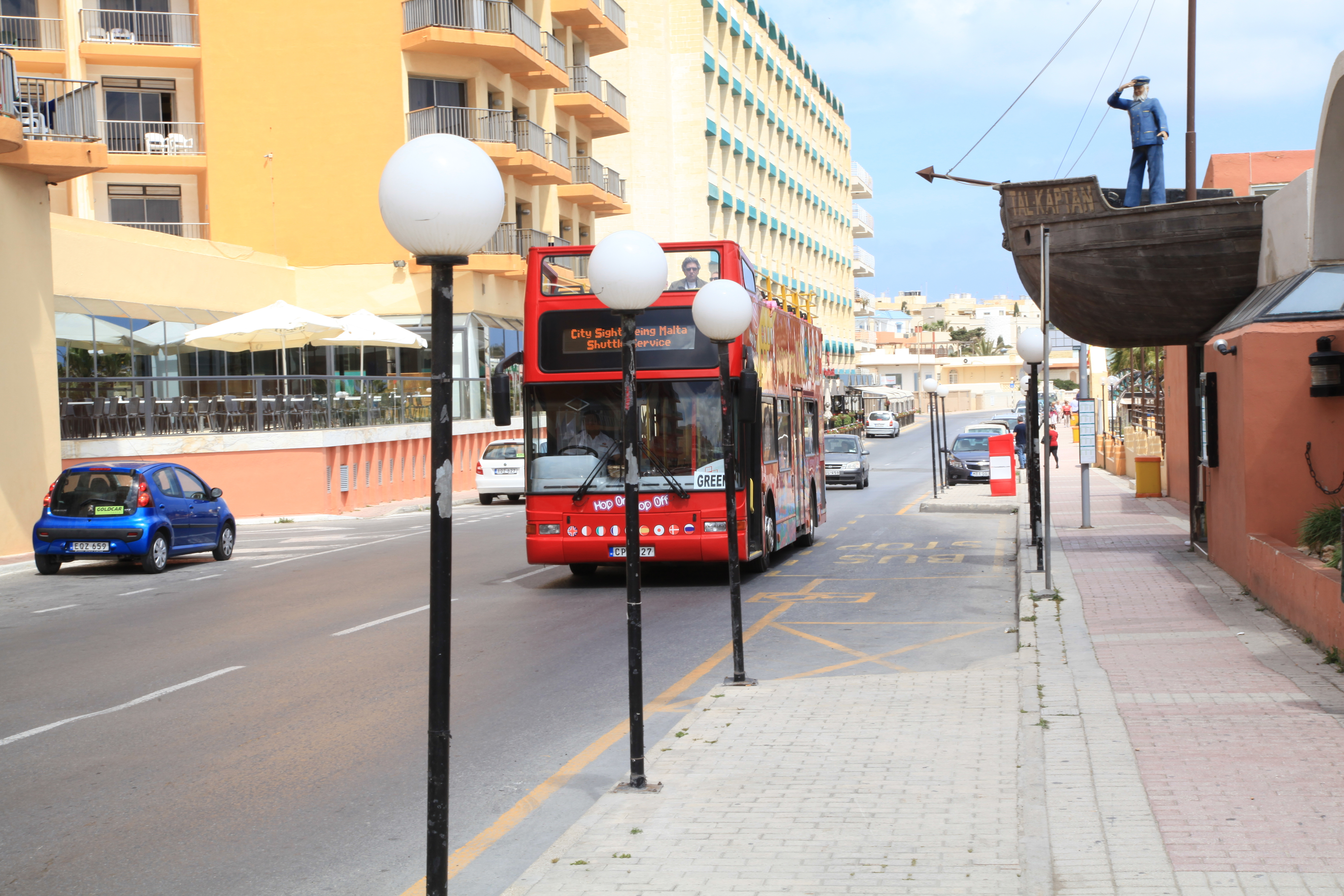 Dawret il-Qawra in St. Paul's Bay, Malta